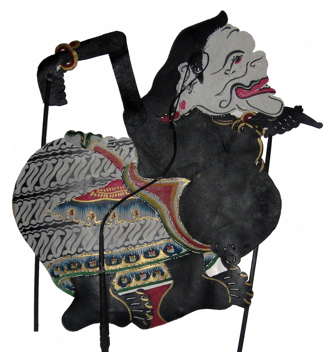 Close up of Semar, a wayang character from Indonesia